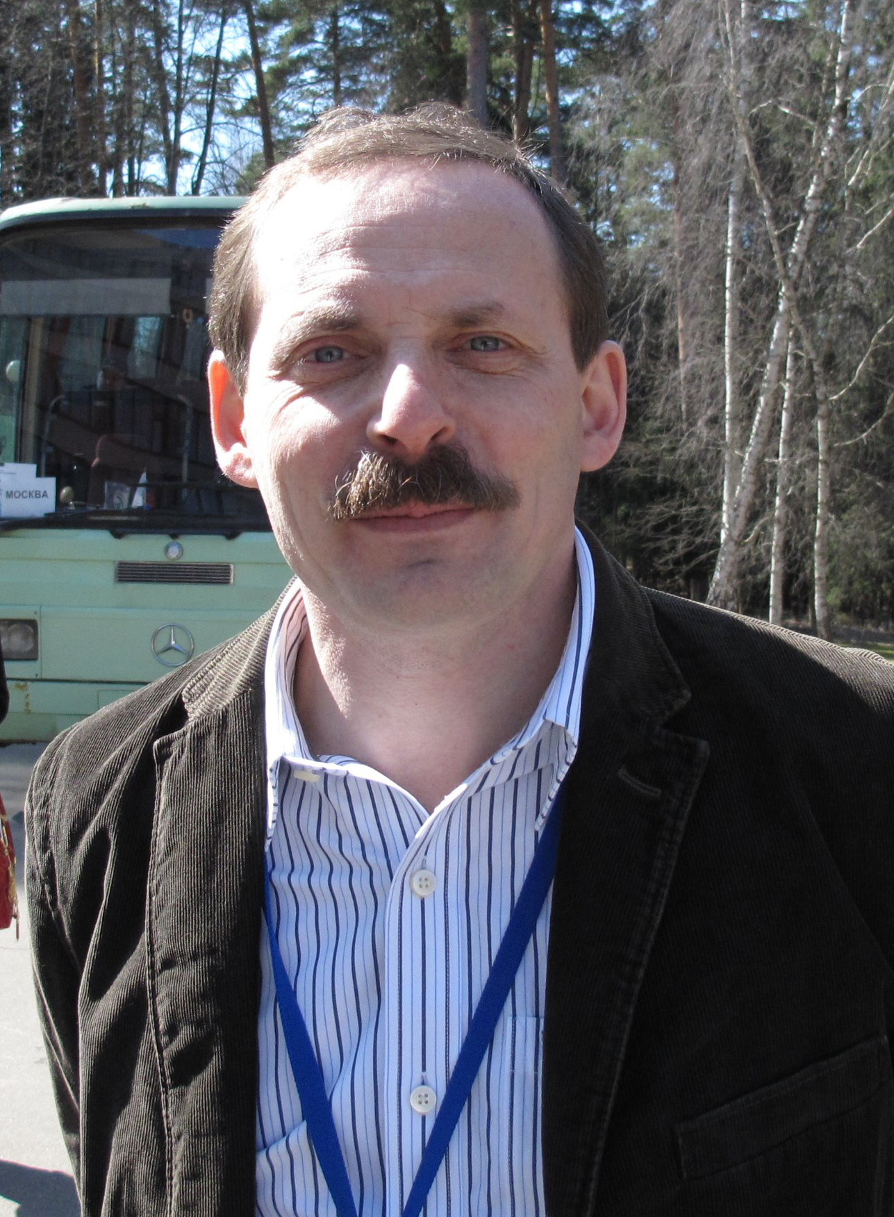 Arkady Volozh is the co-founder and Chief Executive Officer of Yandex